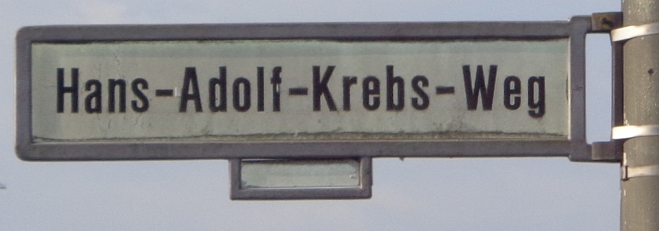 Hans-Adolf-Krebs-Weg (Göttingen) road sign